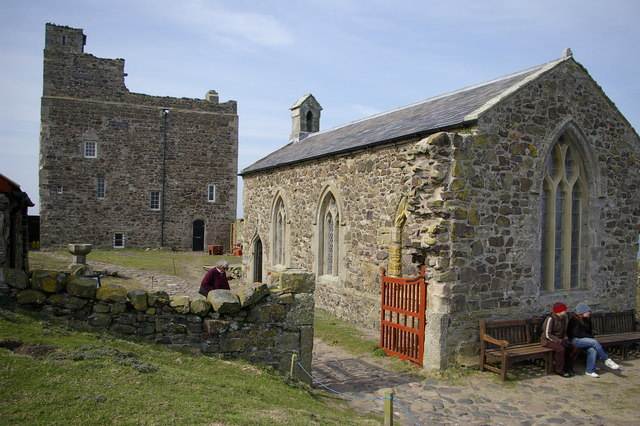 Chapel of St Cuthbert and Prior Castell's Tower, Inner Farne, 3 km from Red Barns, Northumberland, Great Britain. The tower is named after Thomas Castell, Prior of Durham (1494-1519) and was probably constructed c.1500. St Cuthbert's Chapel dates from c.1370. Further information: Link